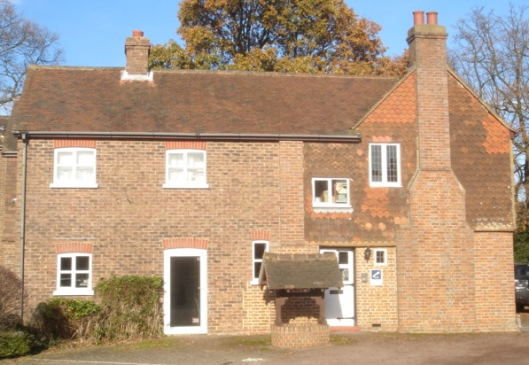 County Oak Cottage, County Oak Lane, Crawley, West Sussex, England. A timber-framed cottage built in the early 18th century, with a 19th-century extension. Now an office on the Amberley Court industrial estate. Listed at Grade II by English Heritage (ref #363339)